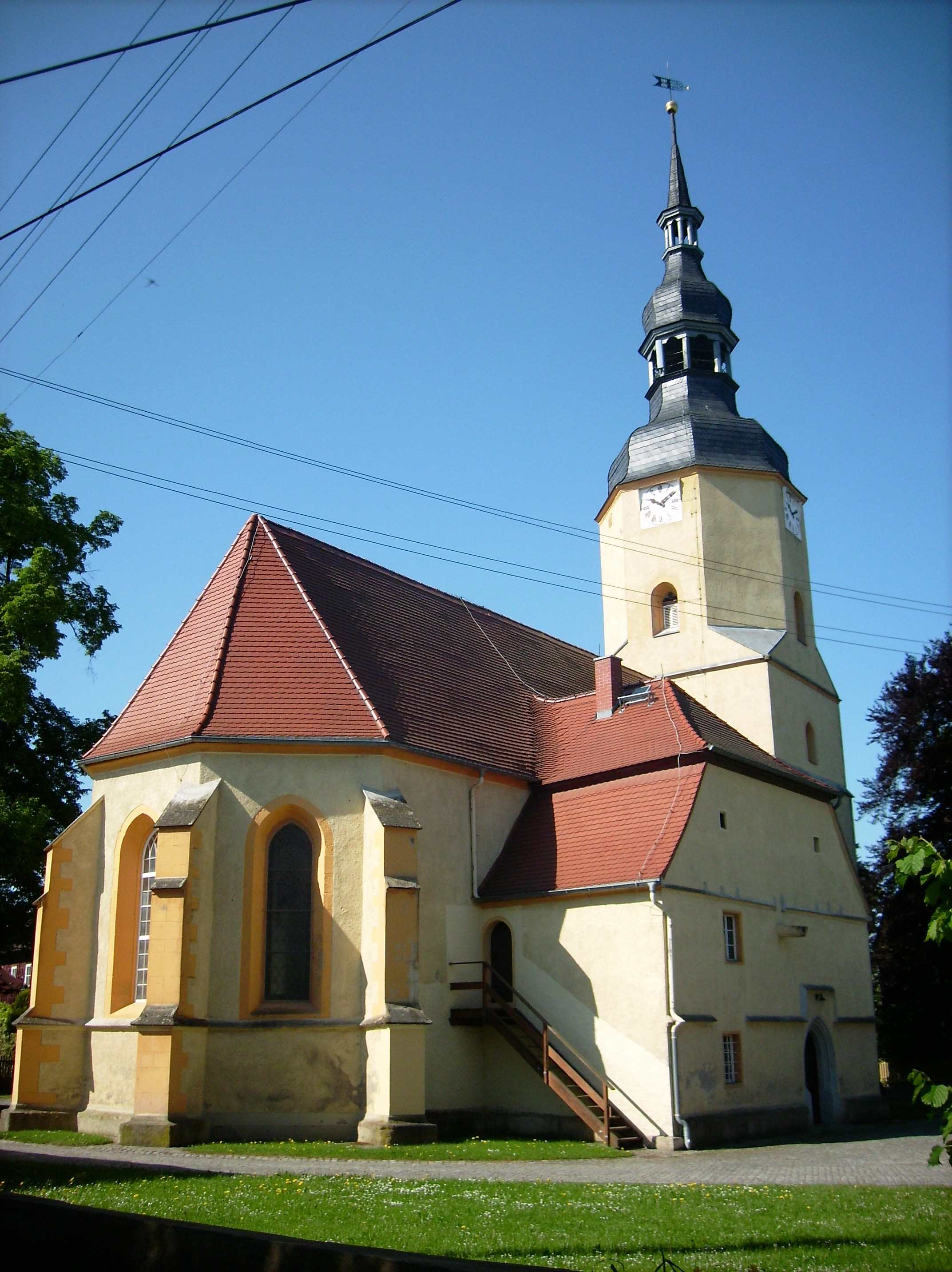 Church in Treben (district of Altenburger Land, Thuringia)